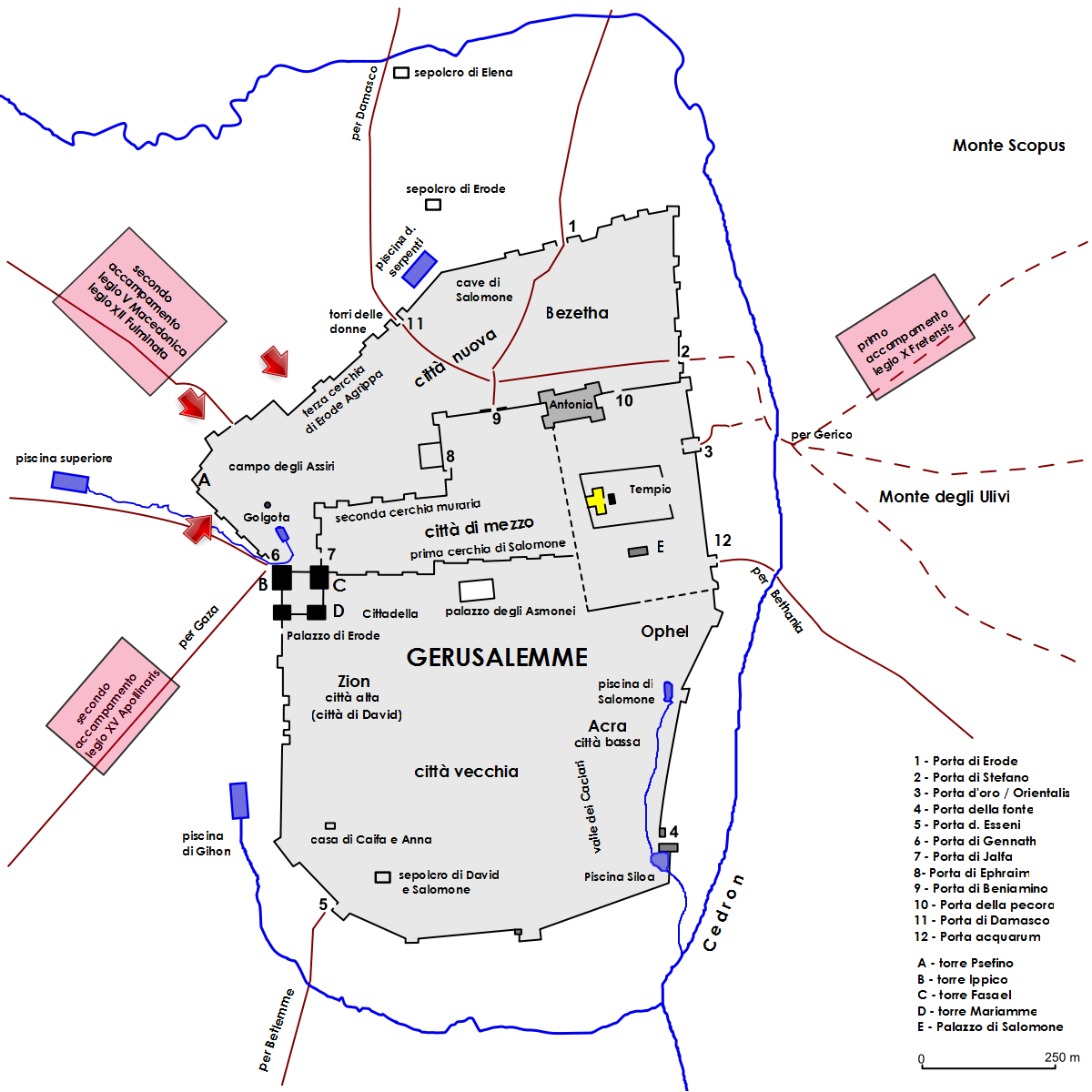 Jerusalem at the time on siege of 70 - 2nd step